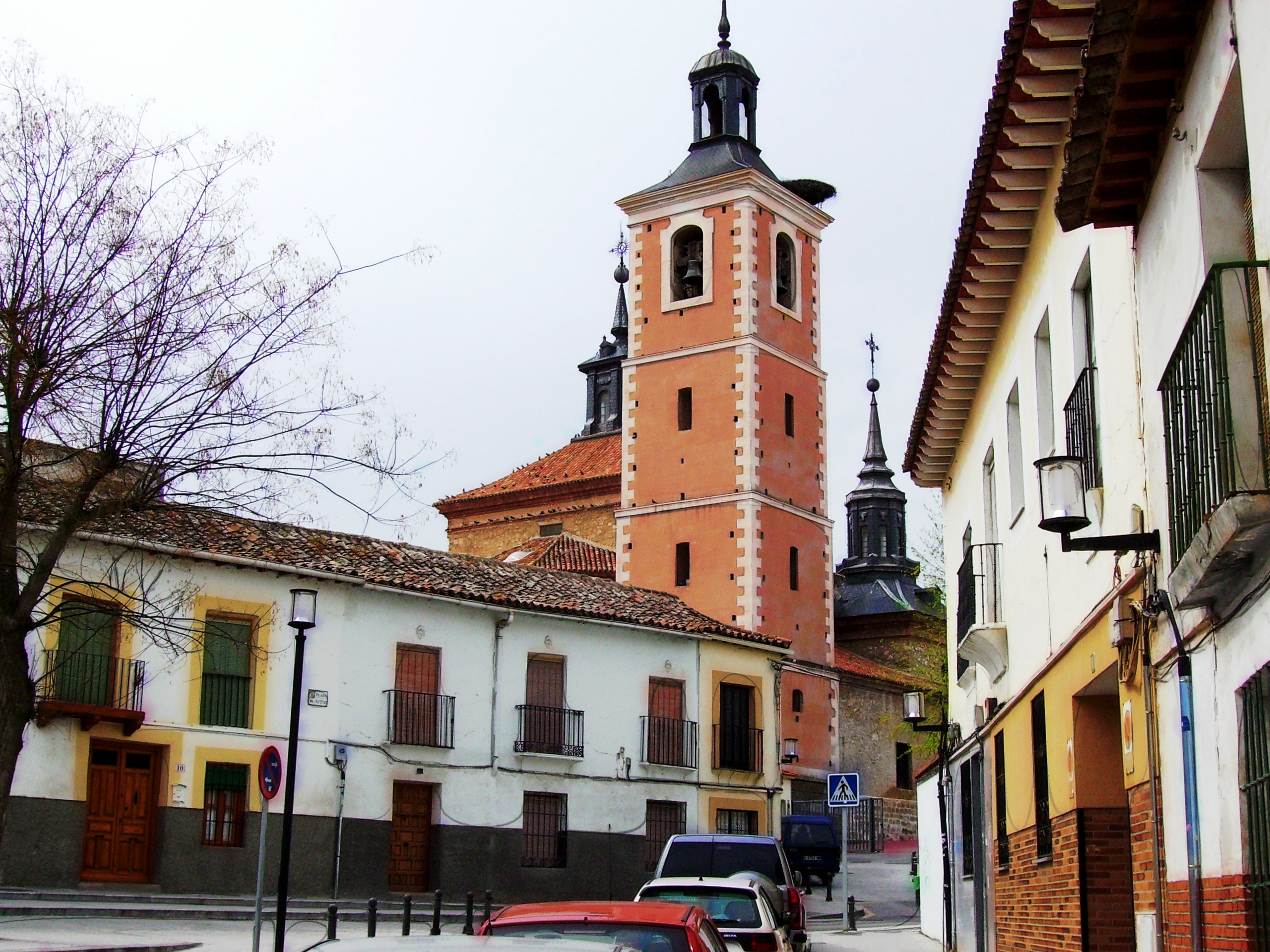 Parroquia de la Asunción (a parish church) in Valdemoro (Community of Madrid, Spain).